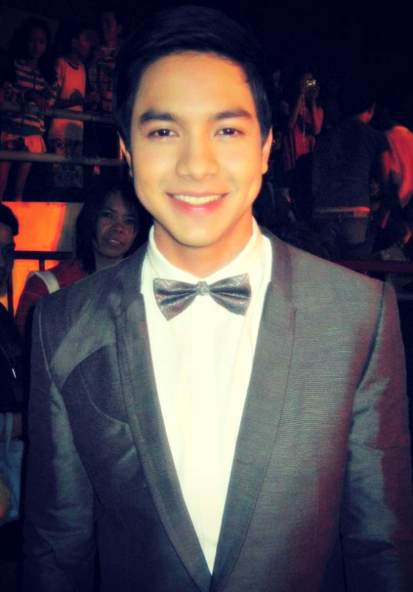 This is Alden Richards during the 2011 Yahoo OMG! Awards Night.